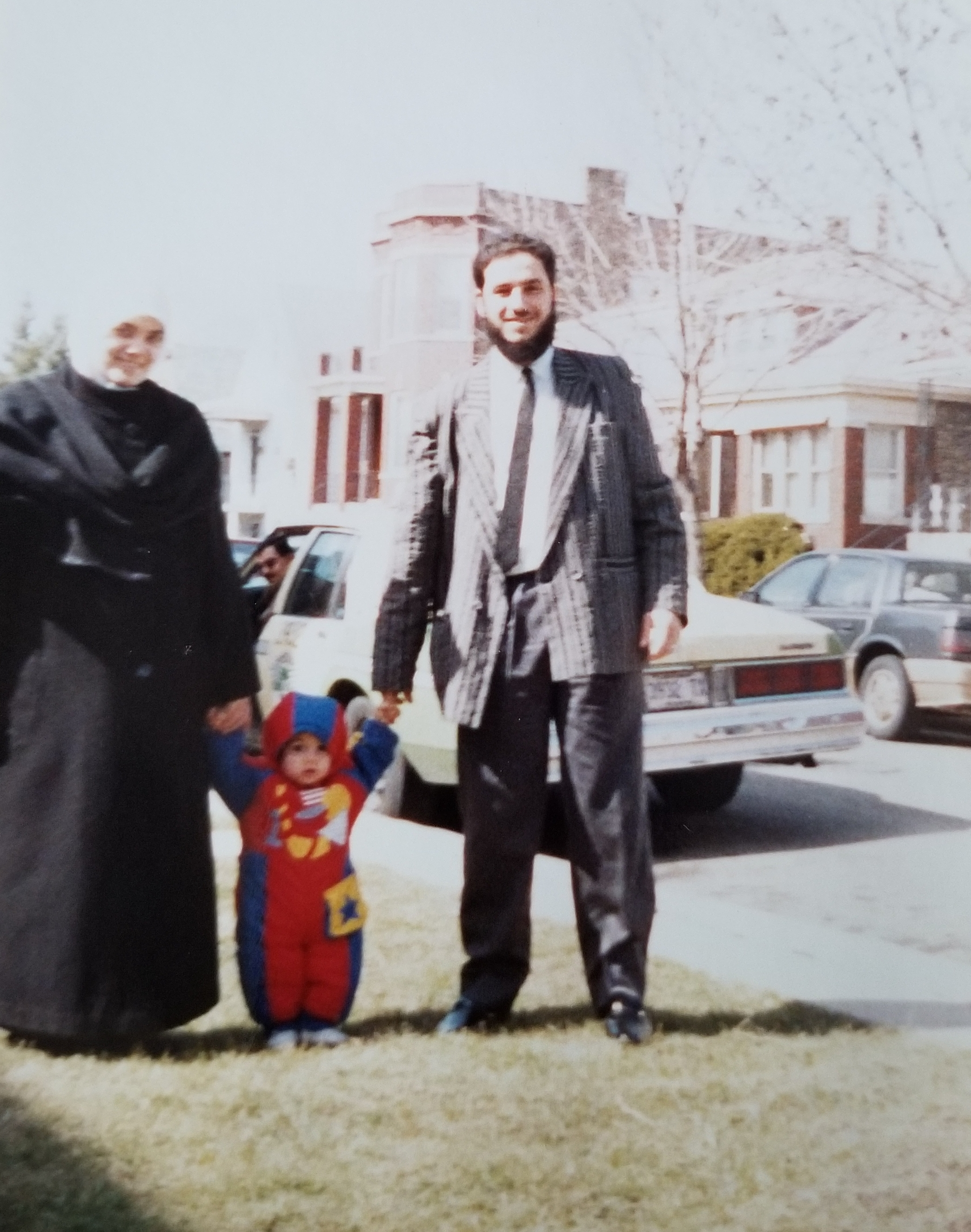 Baby Ibraheem Samirah with his parents near their then-home on the South Side of Chicago